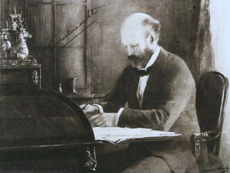 Photograph of Edward Marjoribanks, Lord Tweedmouth KT. First published in his Notes and Reflections, published in 1909.